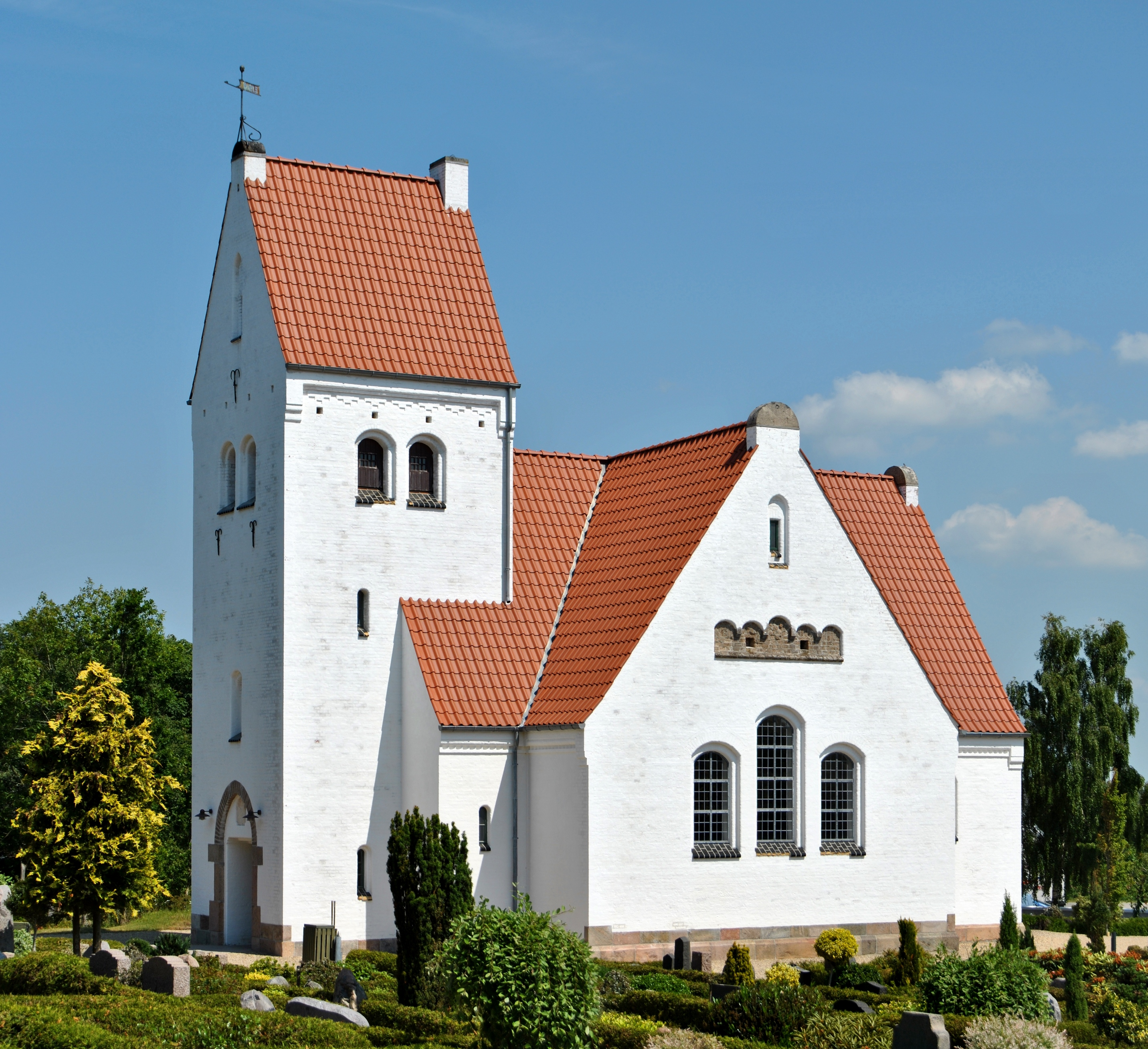 Lønne kirke is a small church on the sekundærrute 181 road between Nymindegab and Nørre Nebel in the Danish region of Syddanmark. The present-day building dates from 1904 and served as a replacement for an earlier church from the Middle Ages.